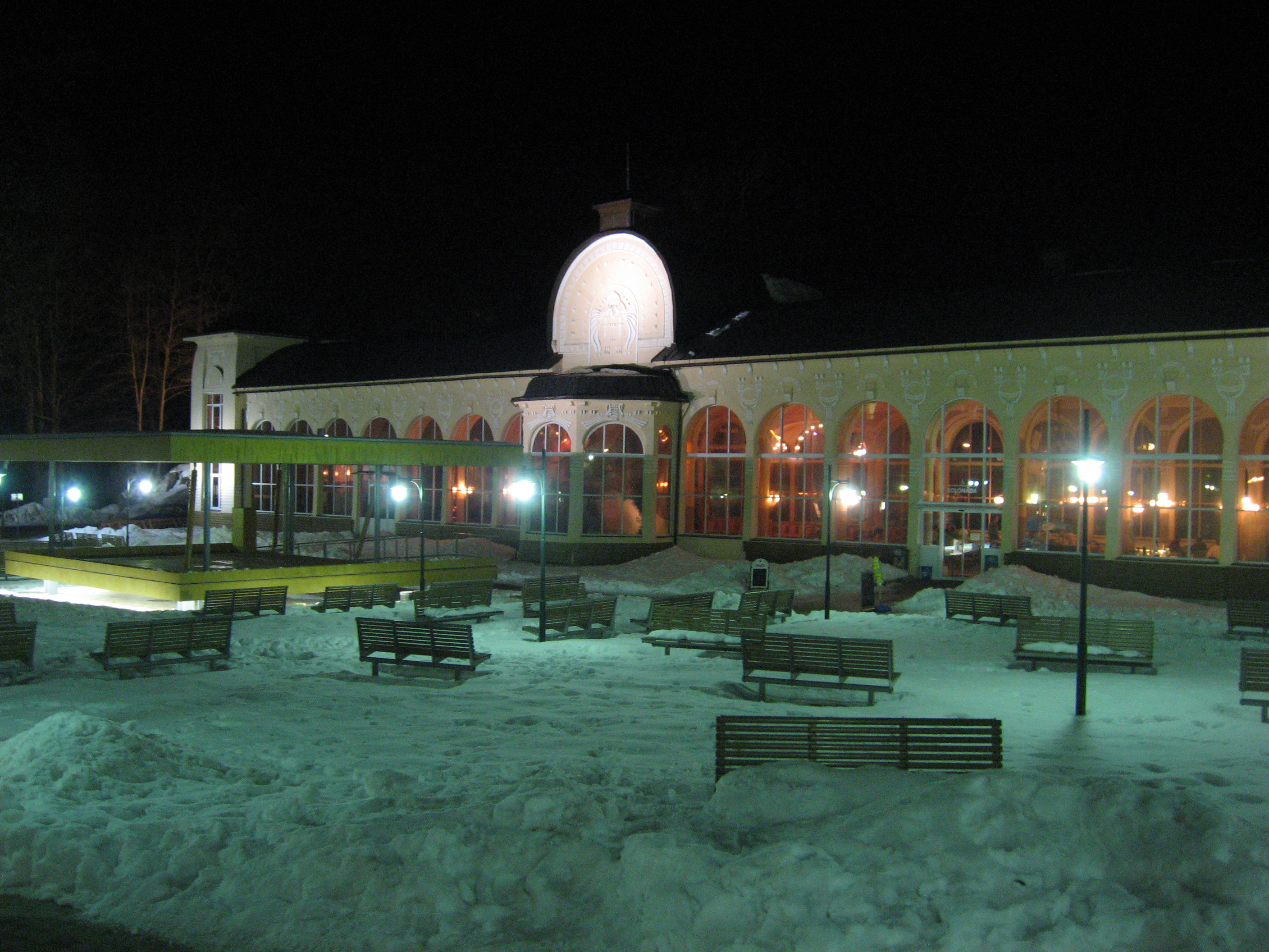 The Colonnade of Janské Lázně at night.